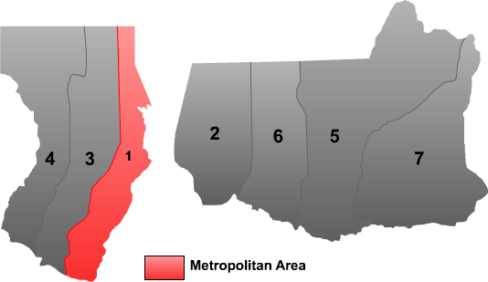 Map of Changji prefecture in Xinjiang province